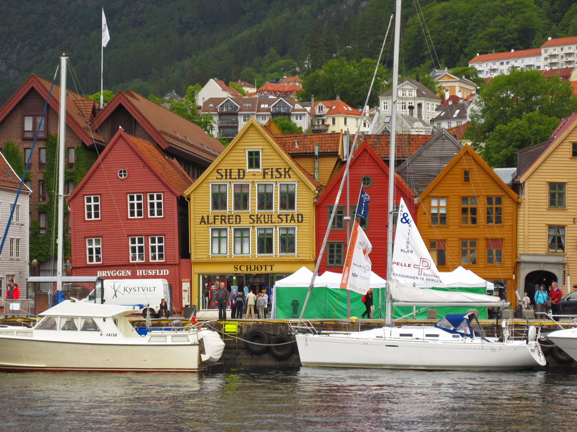 Partial view of the Hanseatic commercial wooden buildings along the harbour in Bergen. Bryggen is the oldest part of the city of Bergen. Norway, Jun 2010.